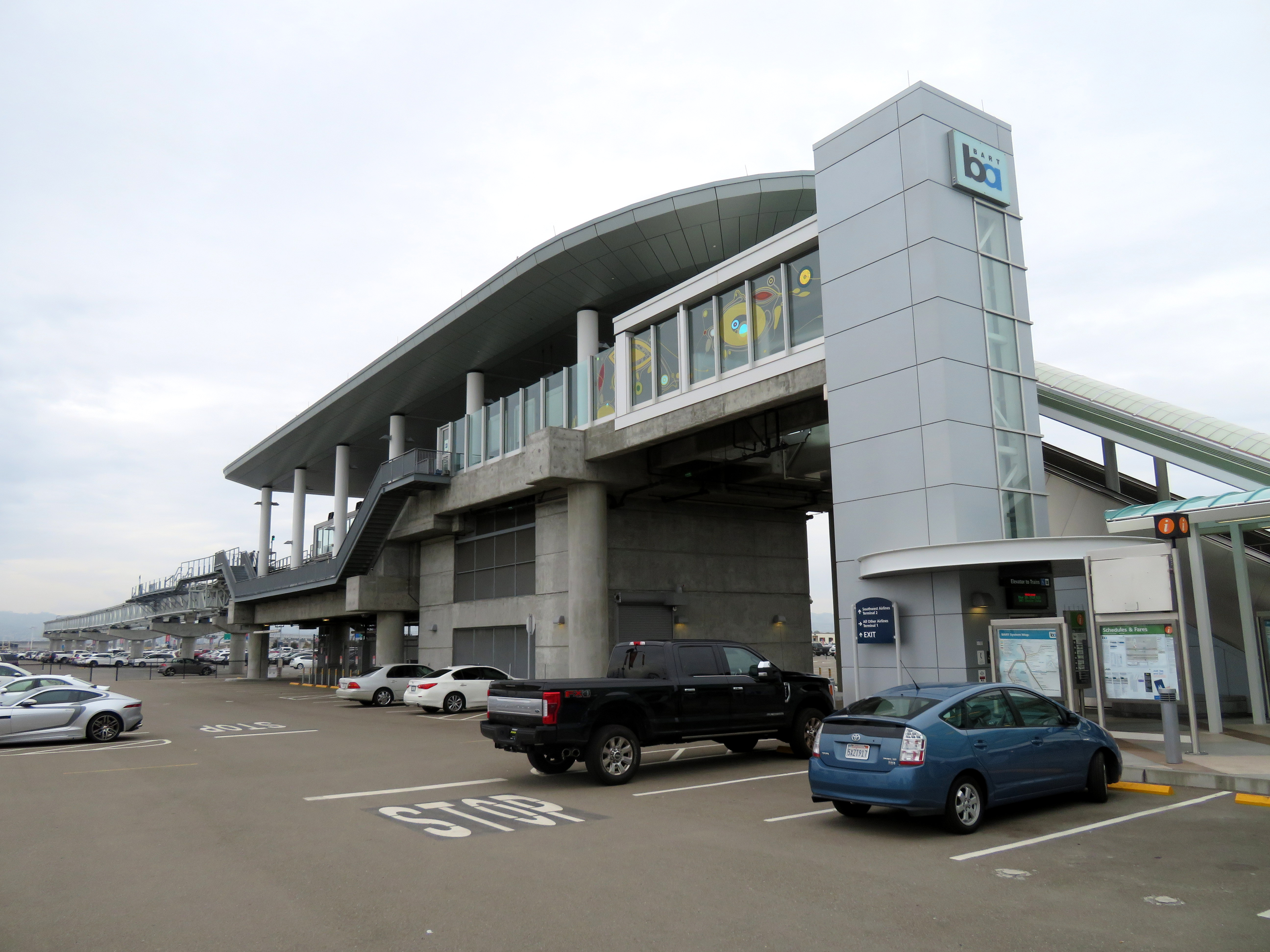 Oakland International Airport station in March 2018